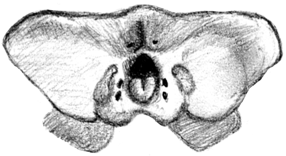 Occiput of the terror bird Kelenken